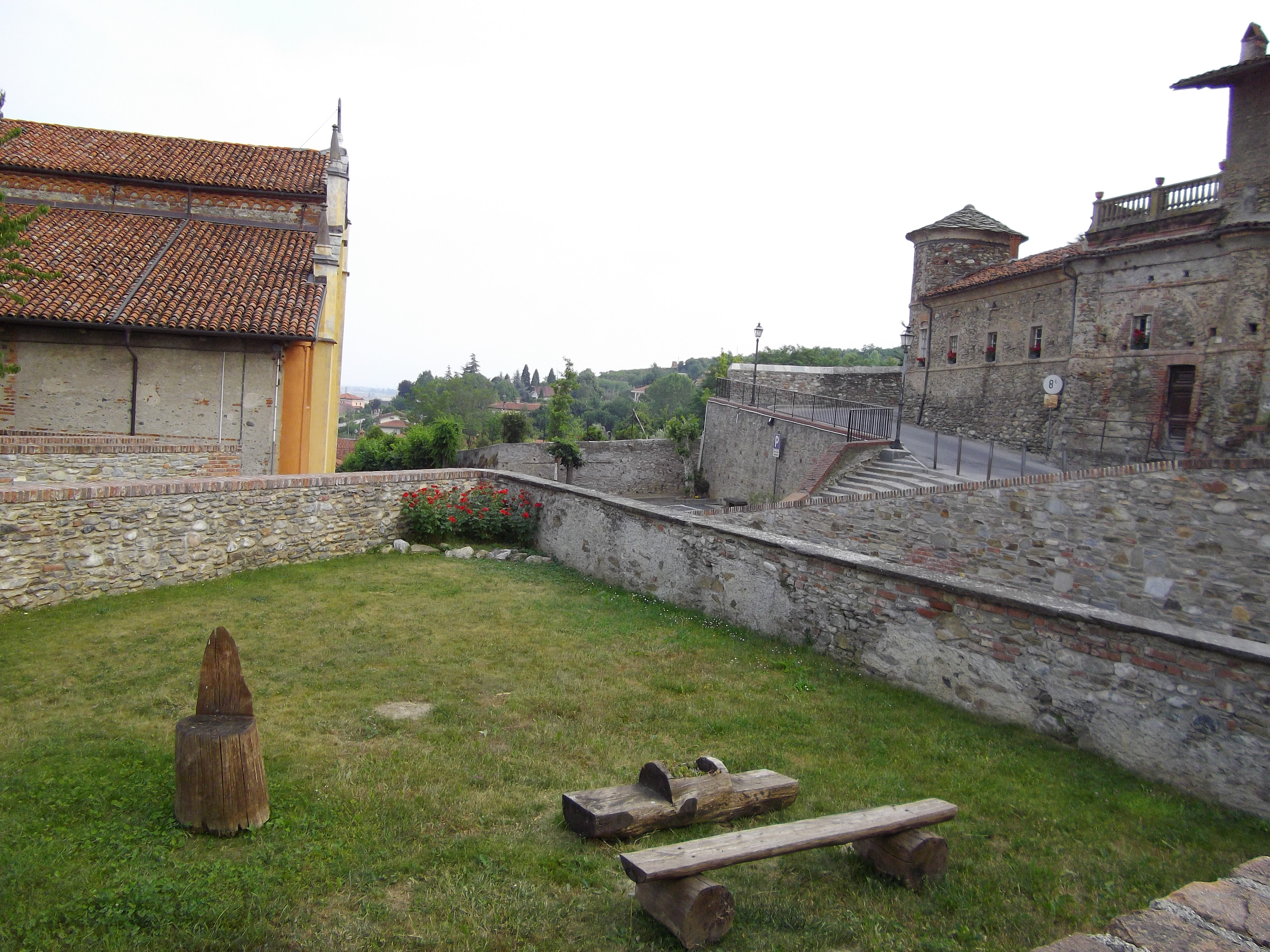 Giardini borgo antico